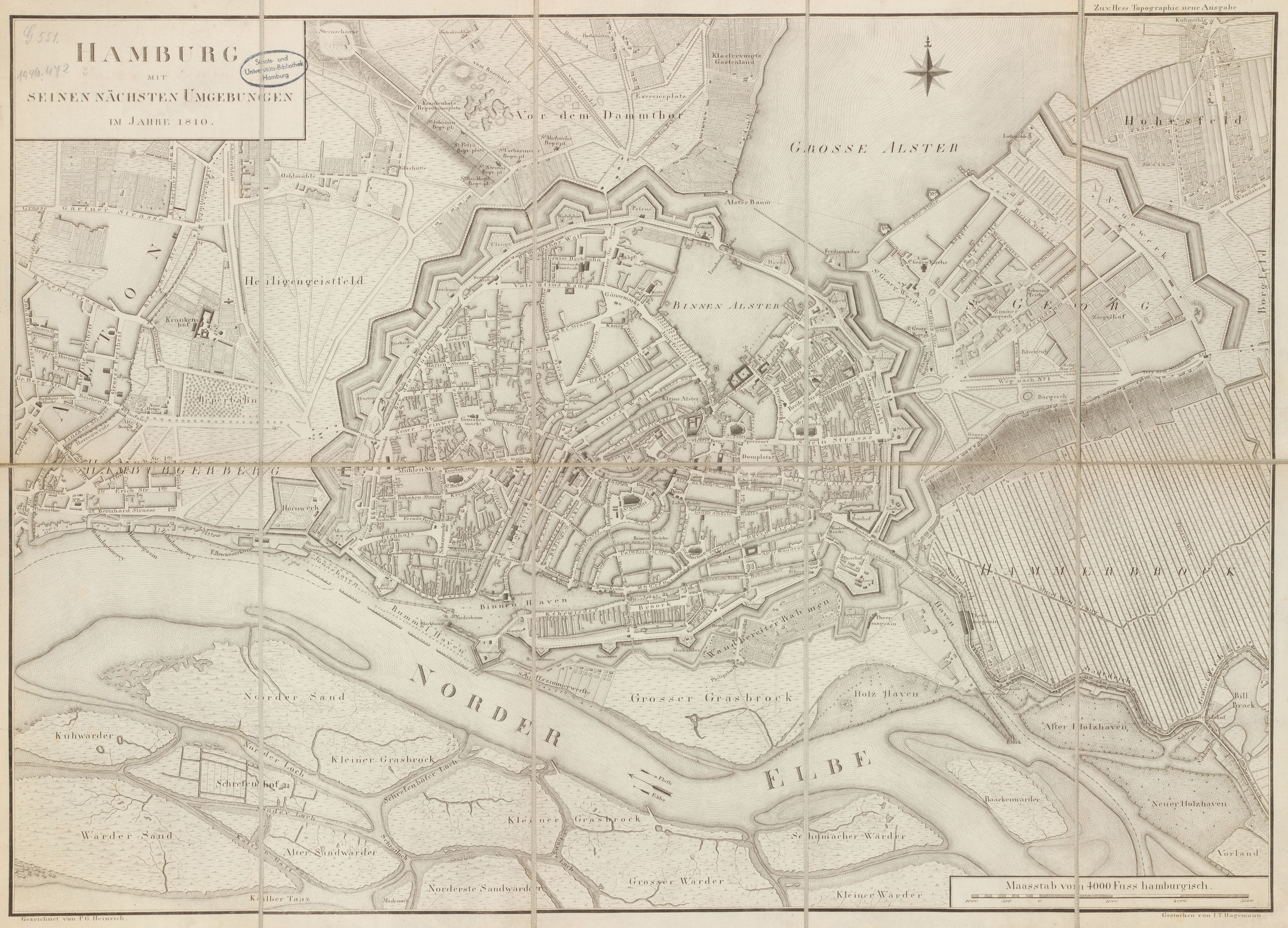 Copper engraving of the fortification map of Hamburg, 1810.